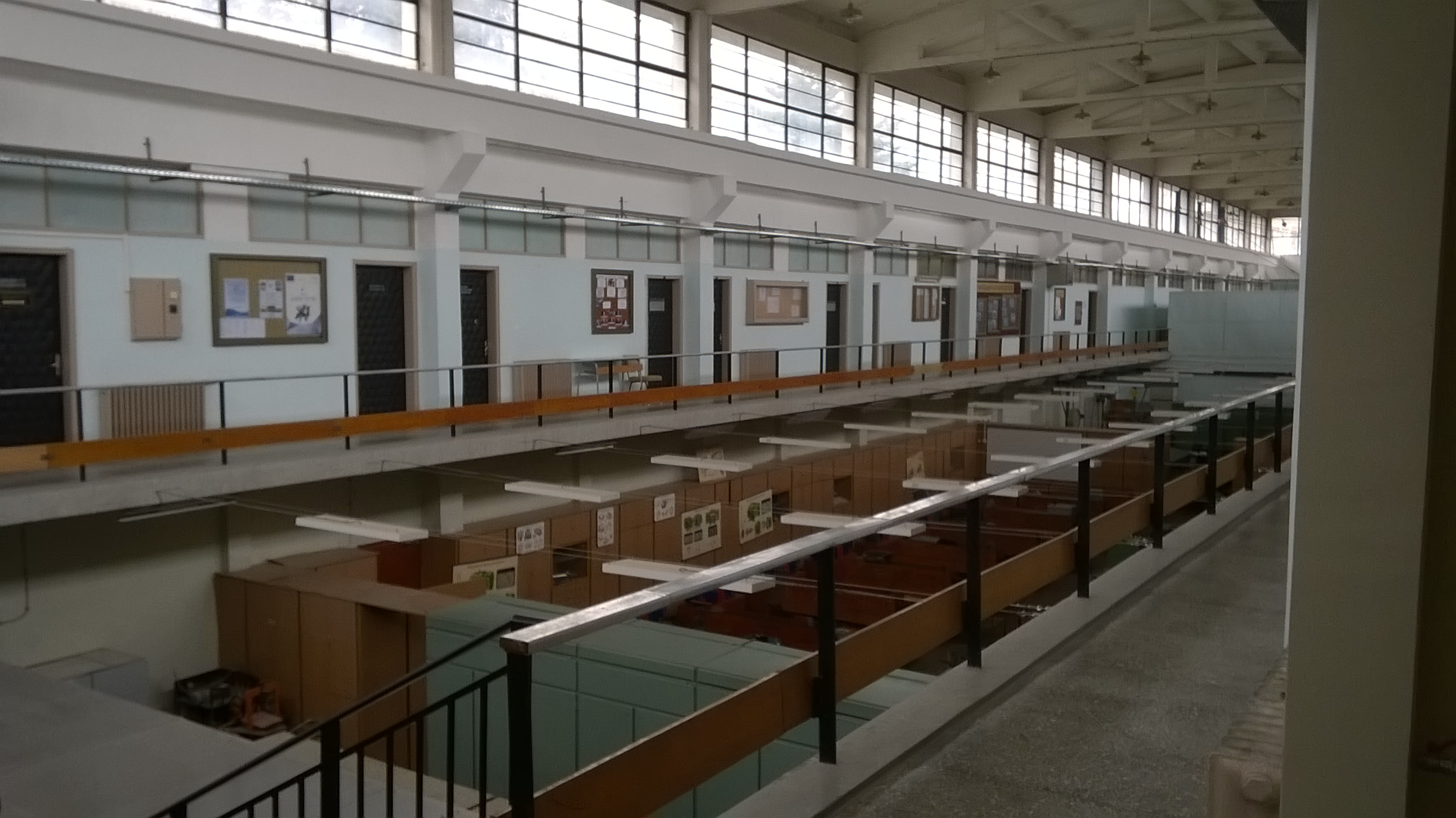 Laboratory of electric machines and offices of departments